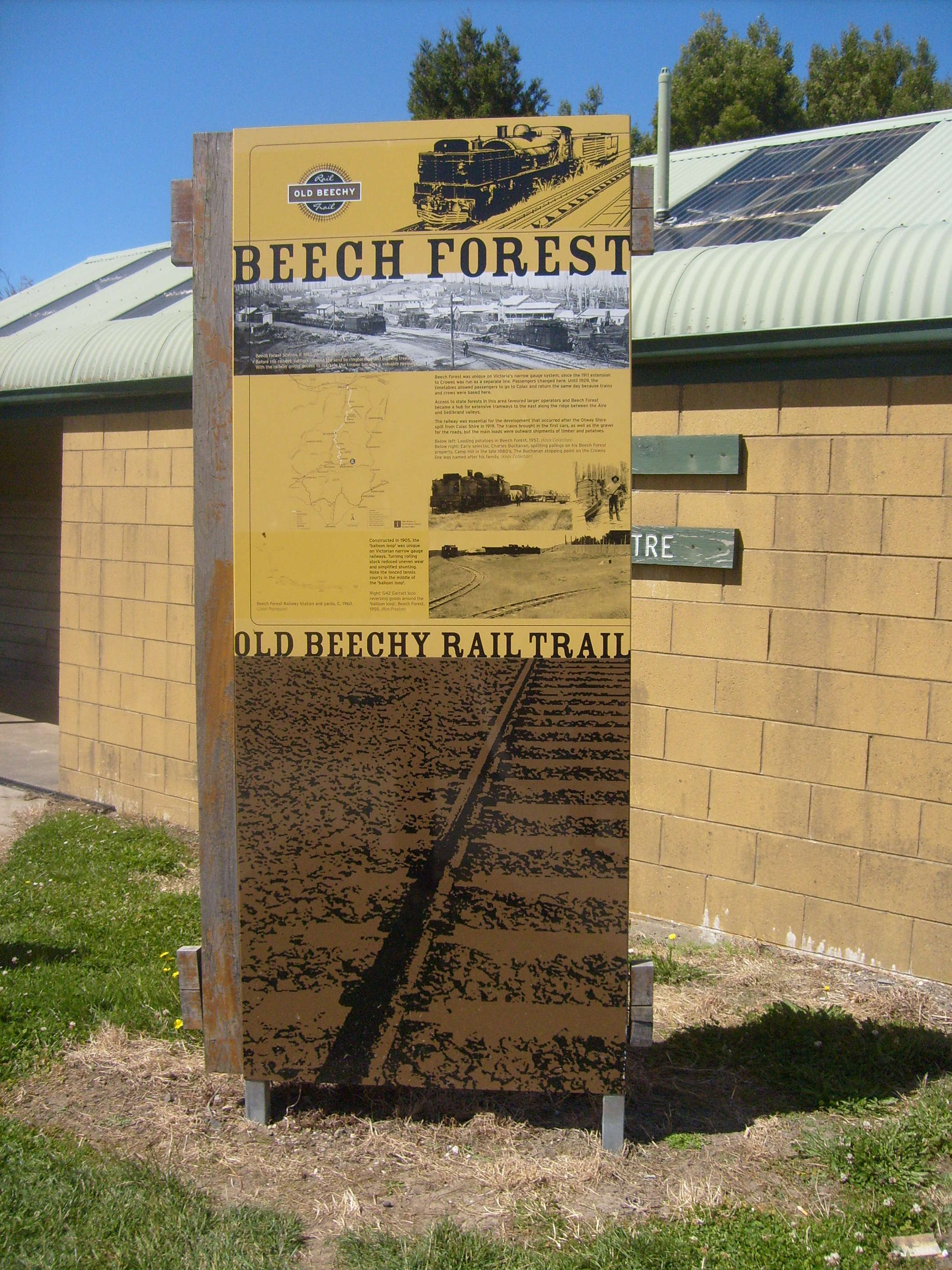 The station site at Beech Forest